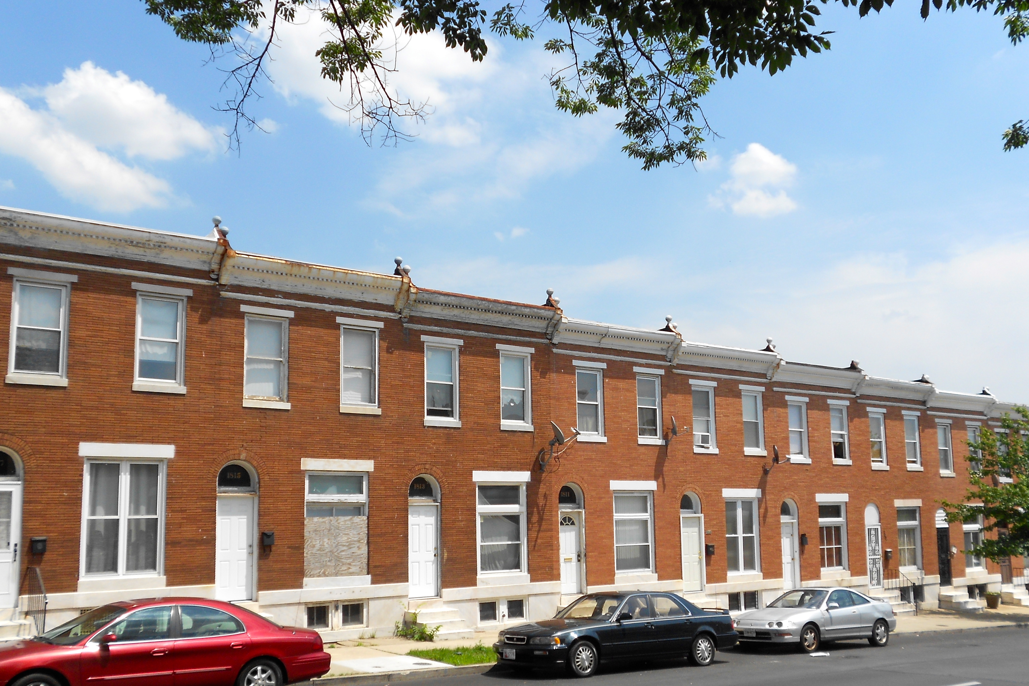 Row houses at Lanvale & Washington Streets in the Baltimore East/South Clifton Park Historic District. Listed on the NRHP on December 27, 2002. The district is roughly bounded by Clifton Park, N. Broadway, E. Chase St., and N. Rose St.